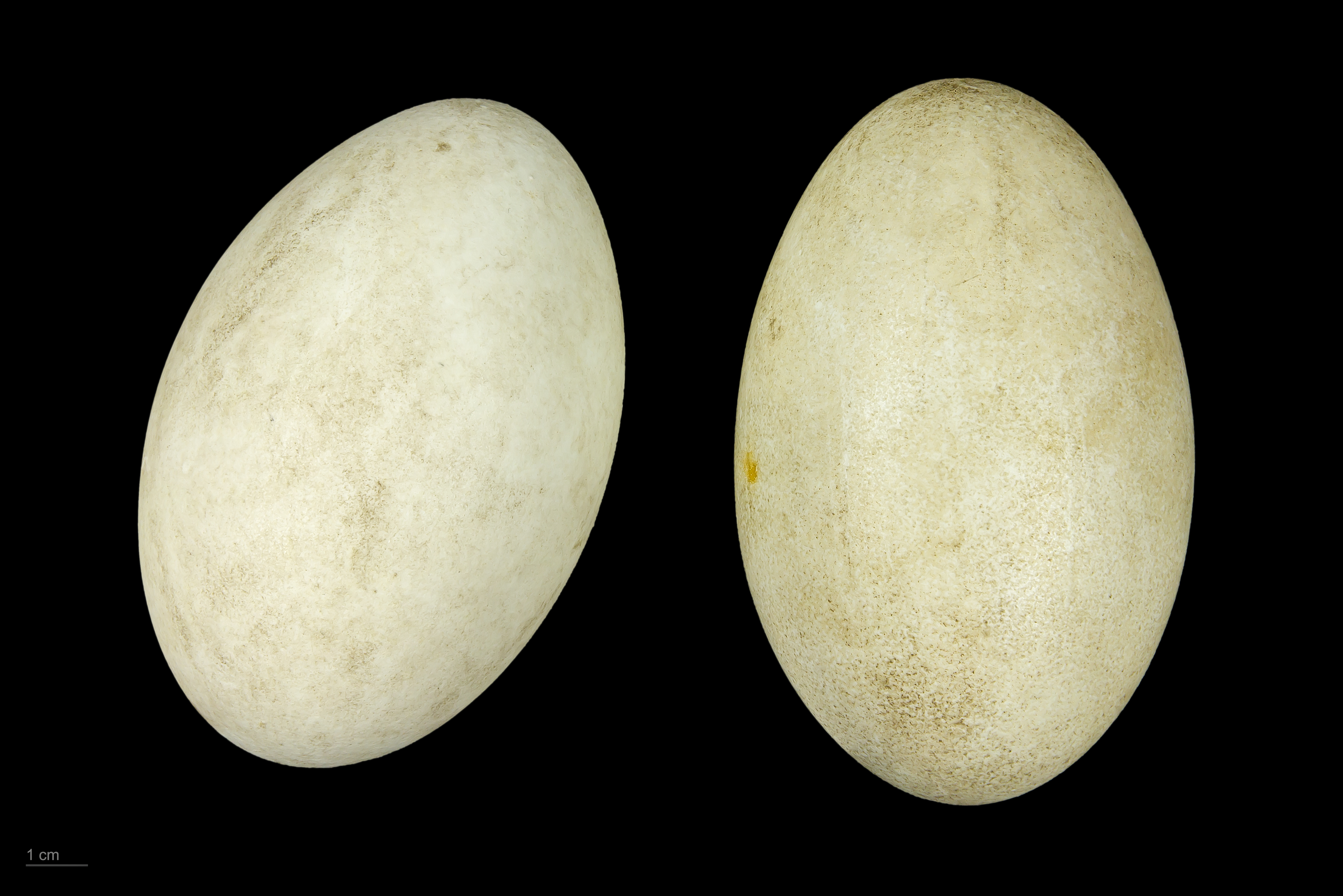 Egg of black swan Collection of Jacques Perrin de Brichambaut.